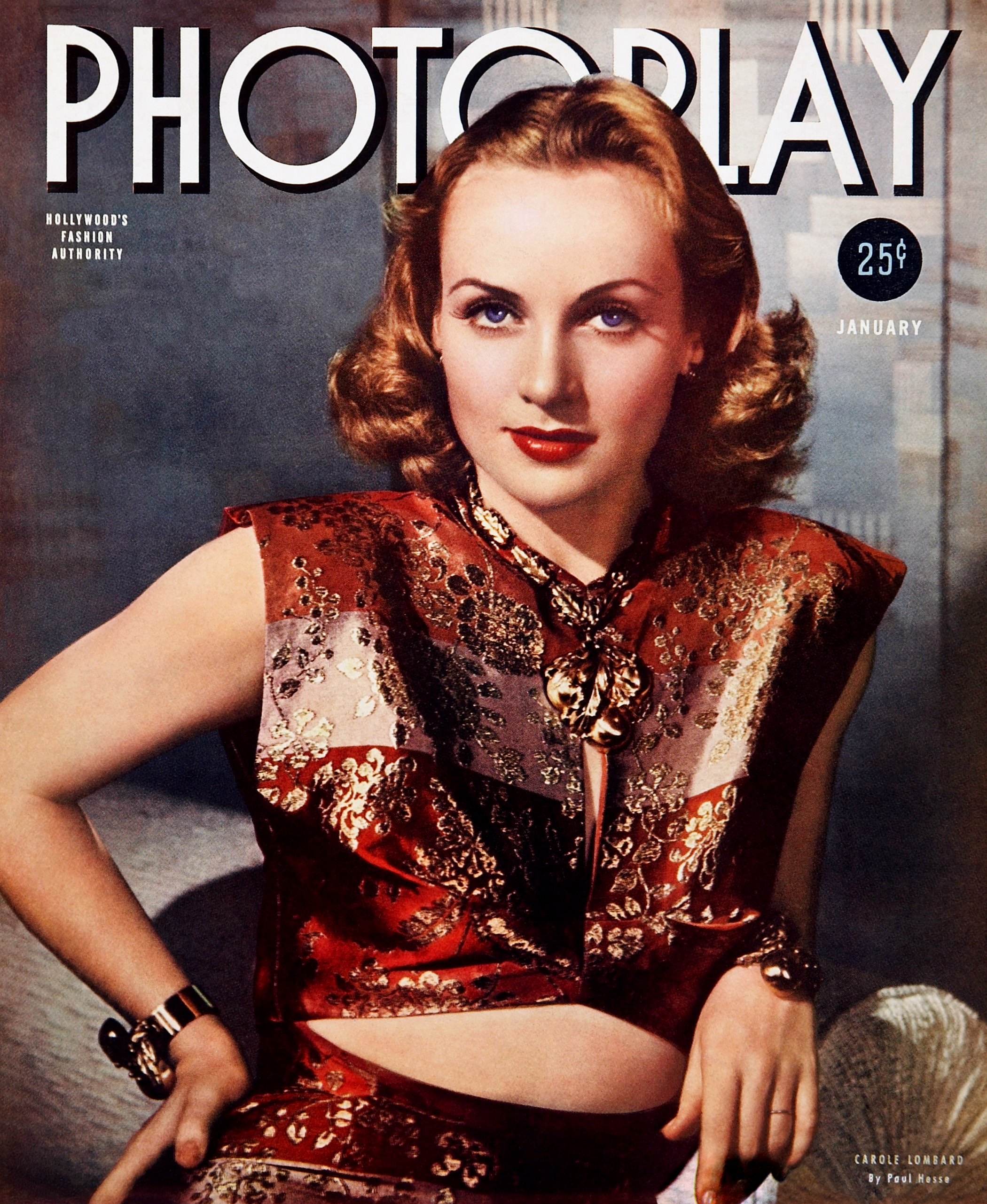 Photo of Carole Lombard from the cover of the January 1940 issue of Photoplay magazine.